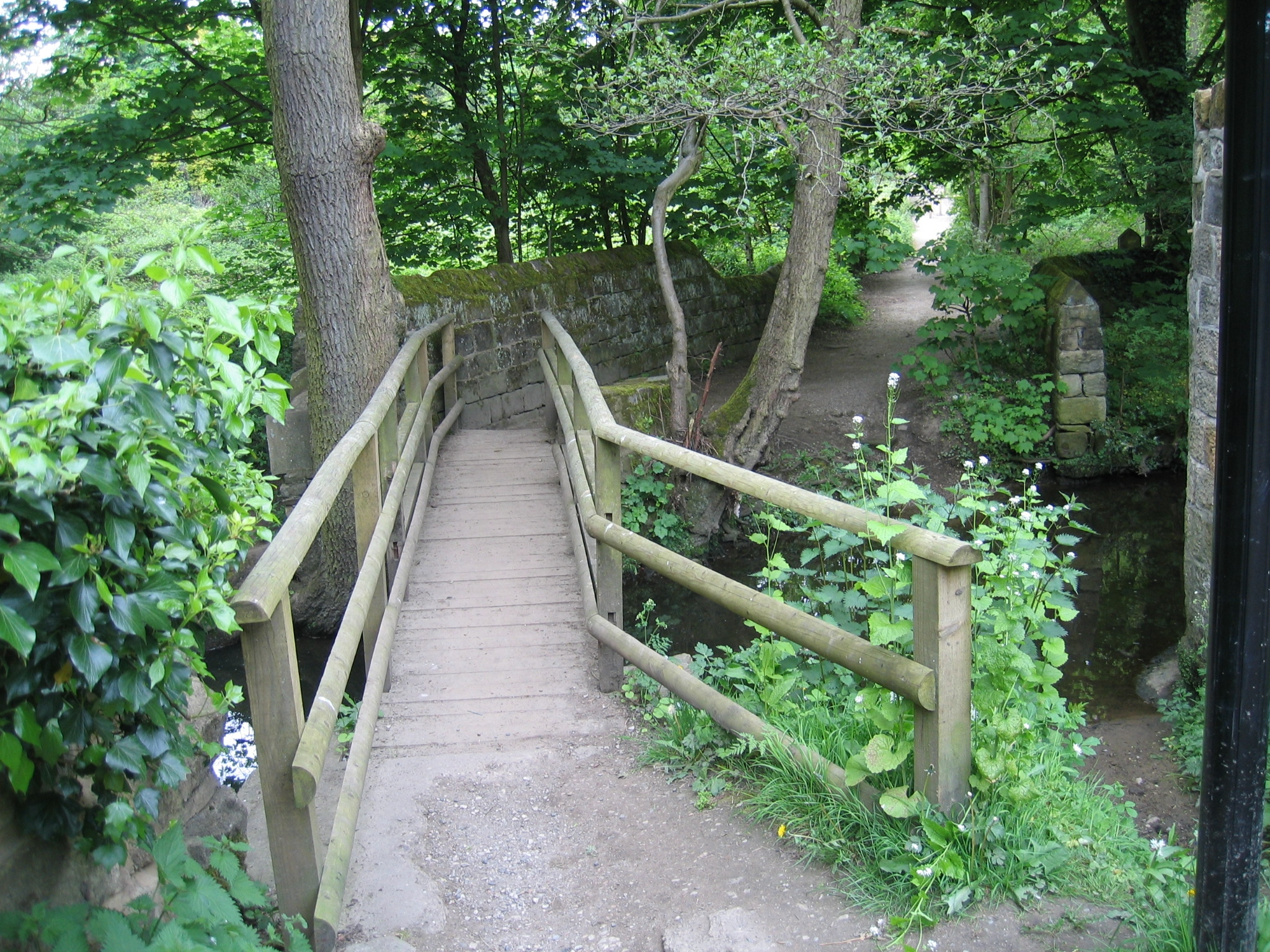 A wooden bridge over Meanwood Beck at the North end of Meanwood Park, Leeds. Part of the Meanwood Valley Trail